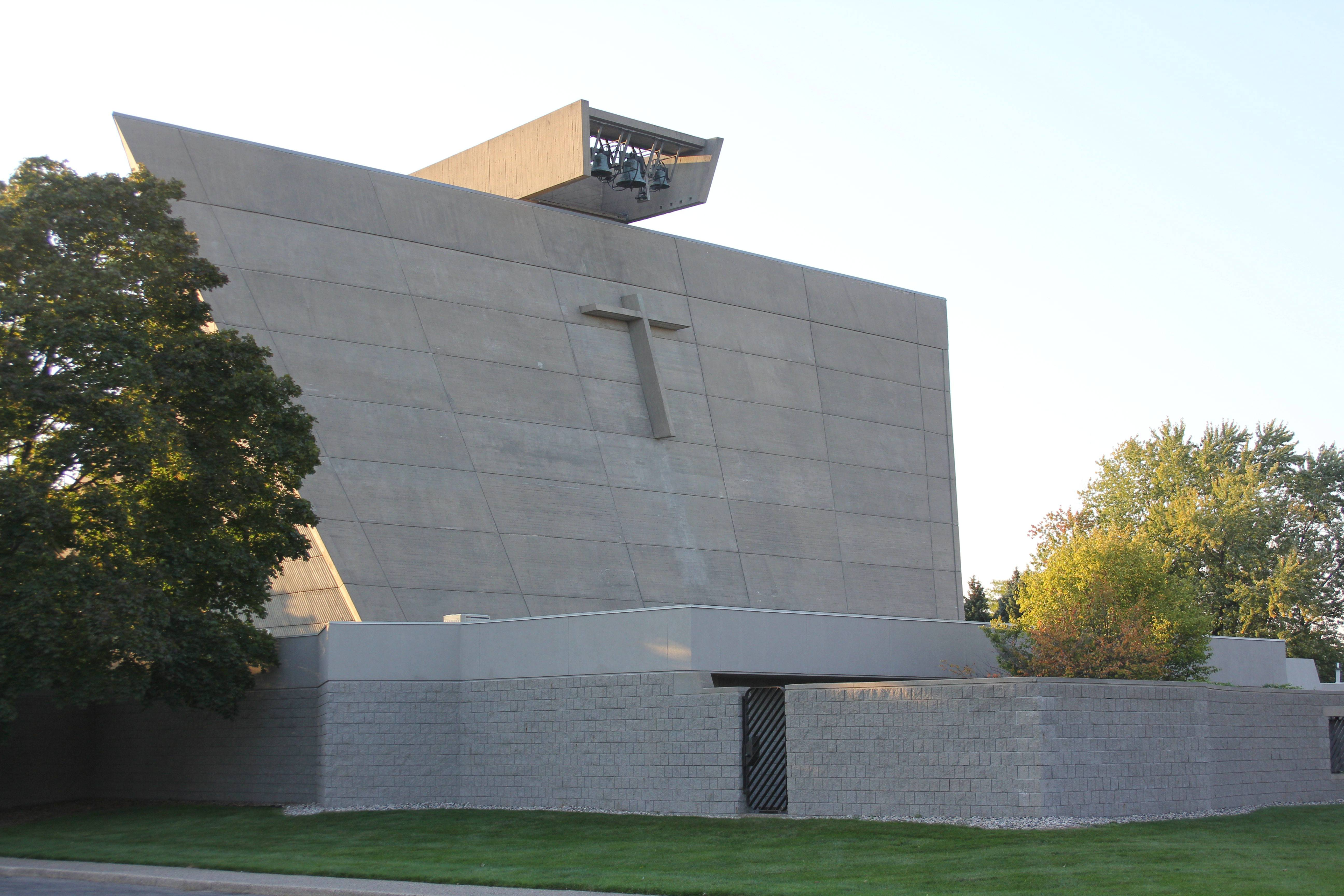 Completed in 1966